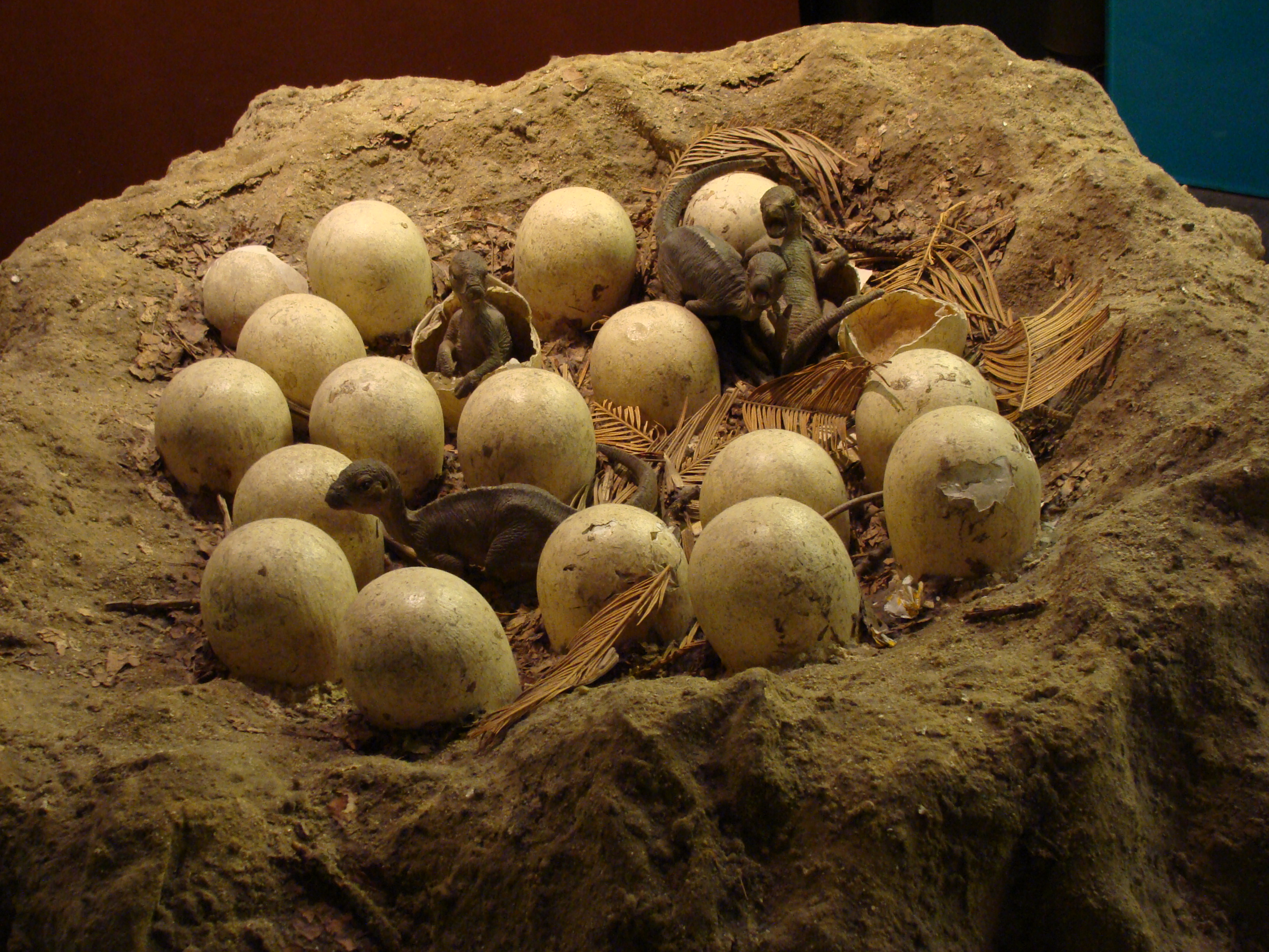 Maiasaura Nest Model in the Natural History Museum of London